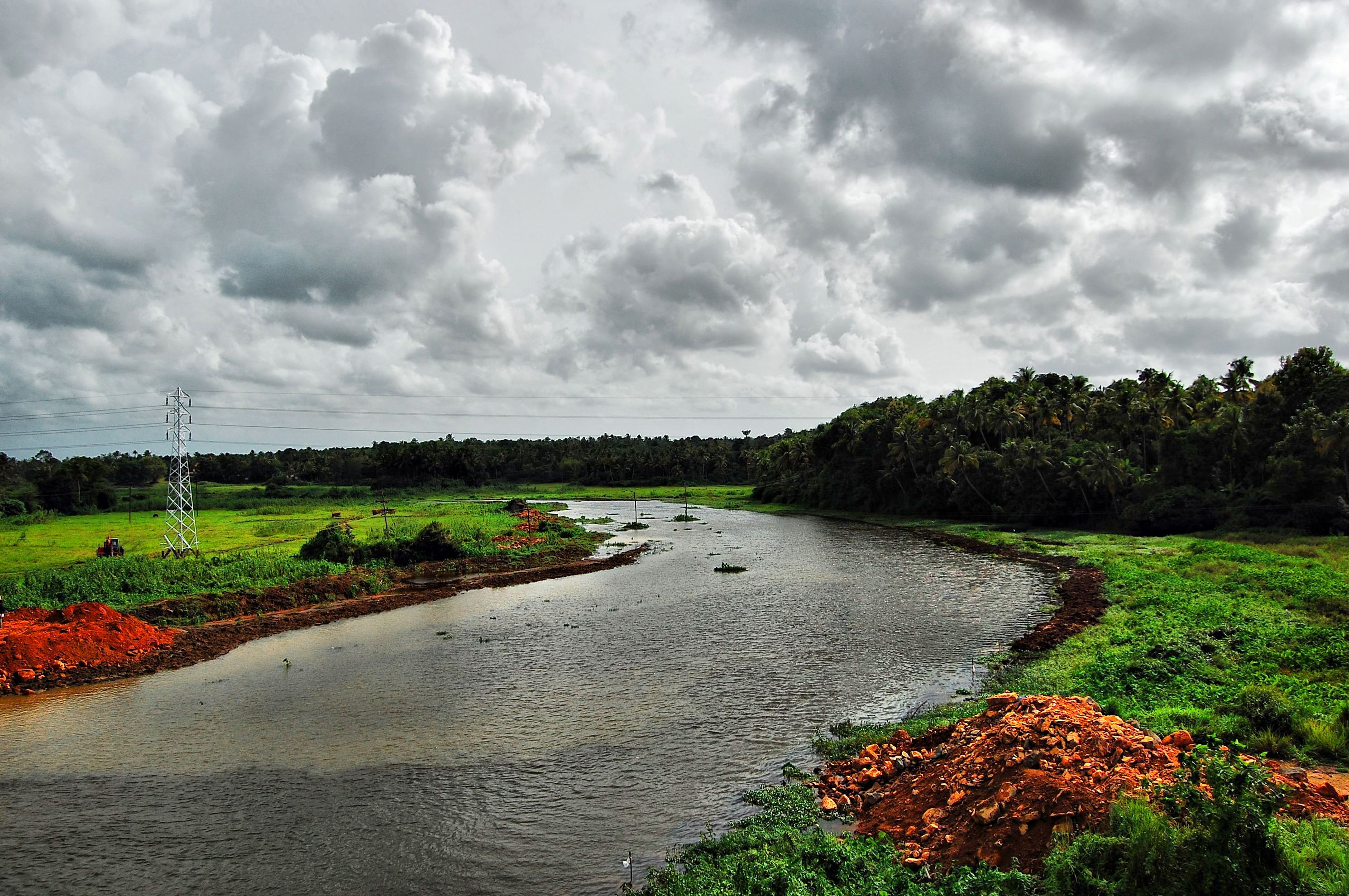 Angamaly manjaly canal, used to be Periyar before 1340s after a recent dredging and widening..